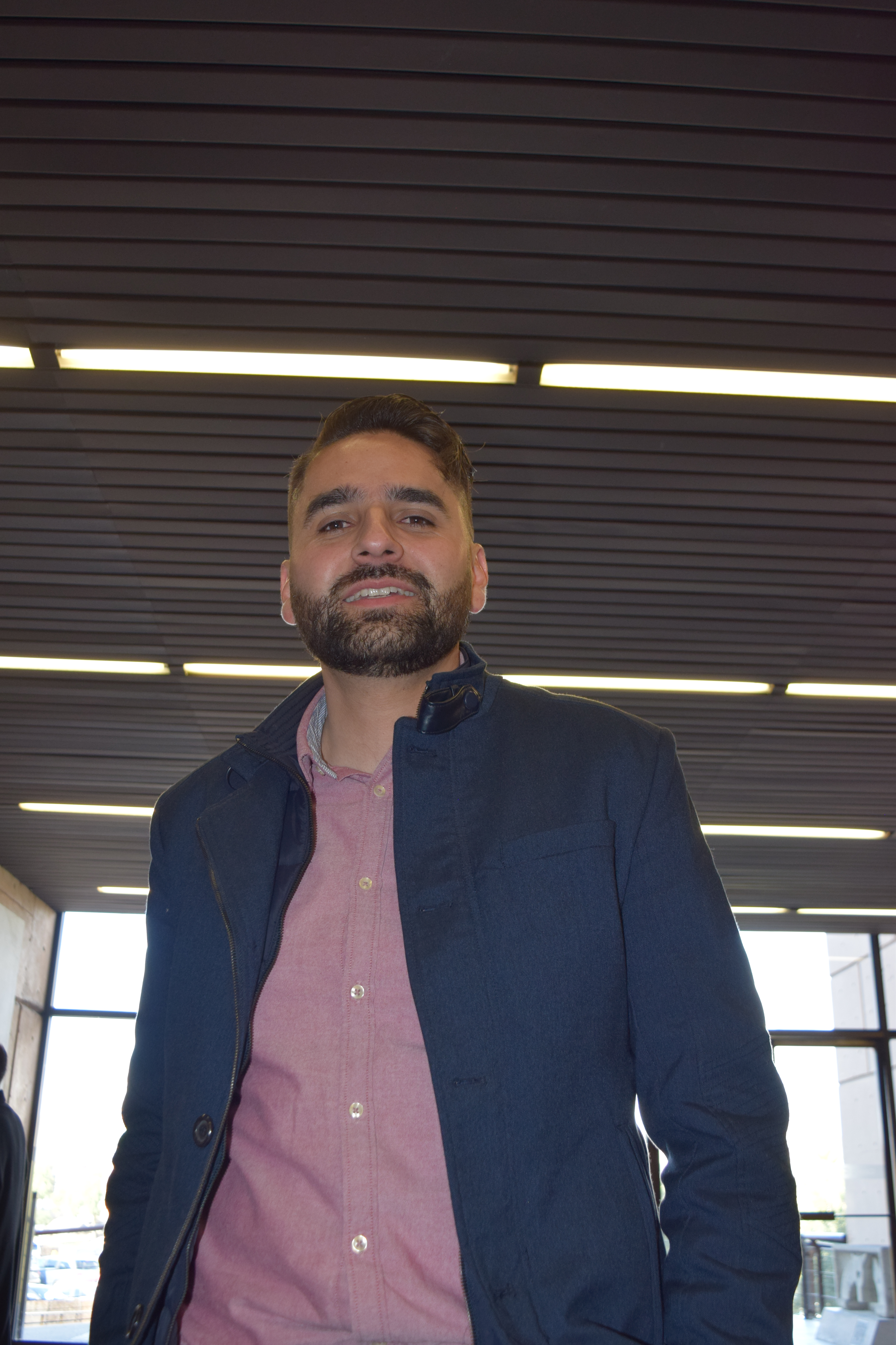 Meneses Monroy at the CECUT, on the sixth anniversary of the literary group "El Comité"